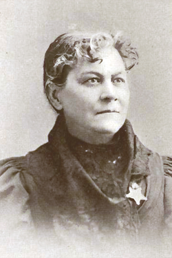 Portrait of Addie Ballou, 1896